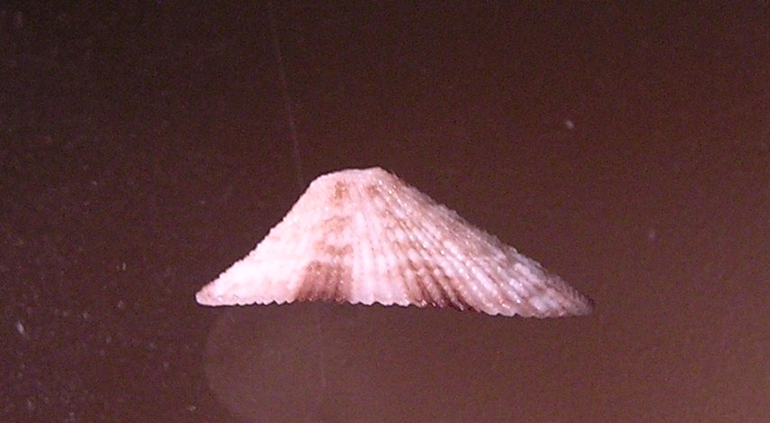 Diodora singaporensis, a keyhole limpet from the family Fissurellidae; Malaga, Spain